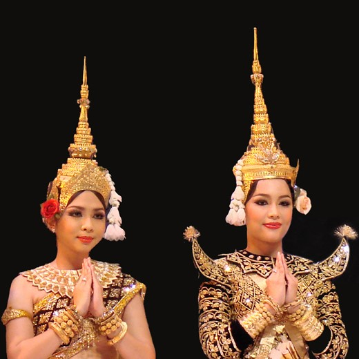 La légende de l'Apsara Mérapar le Ballet Royal du CambodgeSalle PleyelChorégraphie de Son Altesse Royale la Princesse Norodom Buppha DeviDimanche 10 octobre 2010